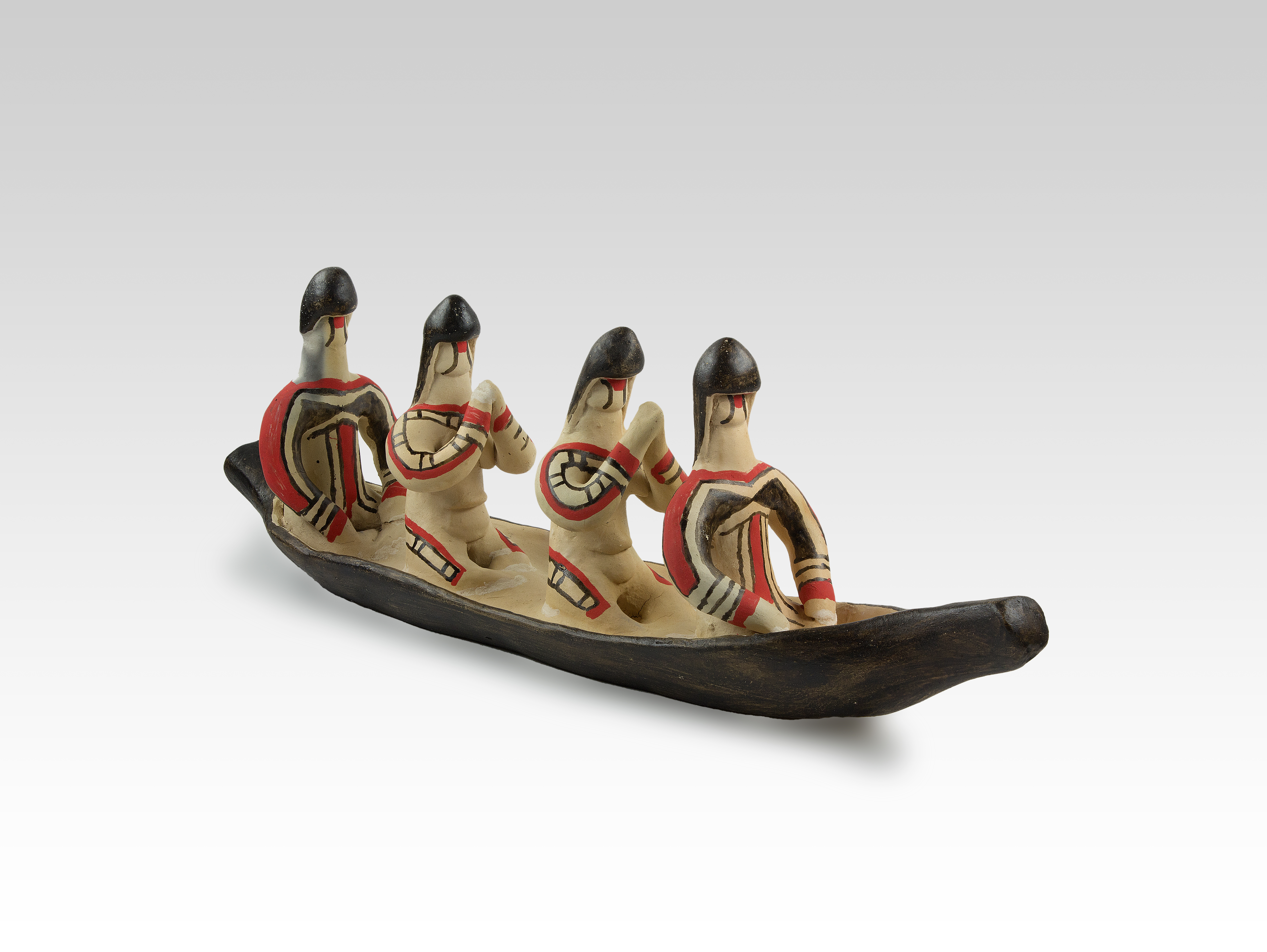 4 persons in a boat size : 13,5 x 40,5 x 9,2 cm material : clay technique : ceramic